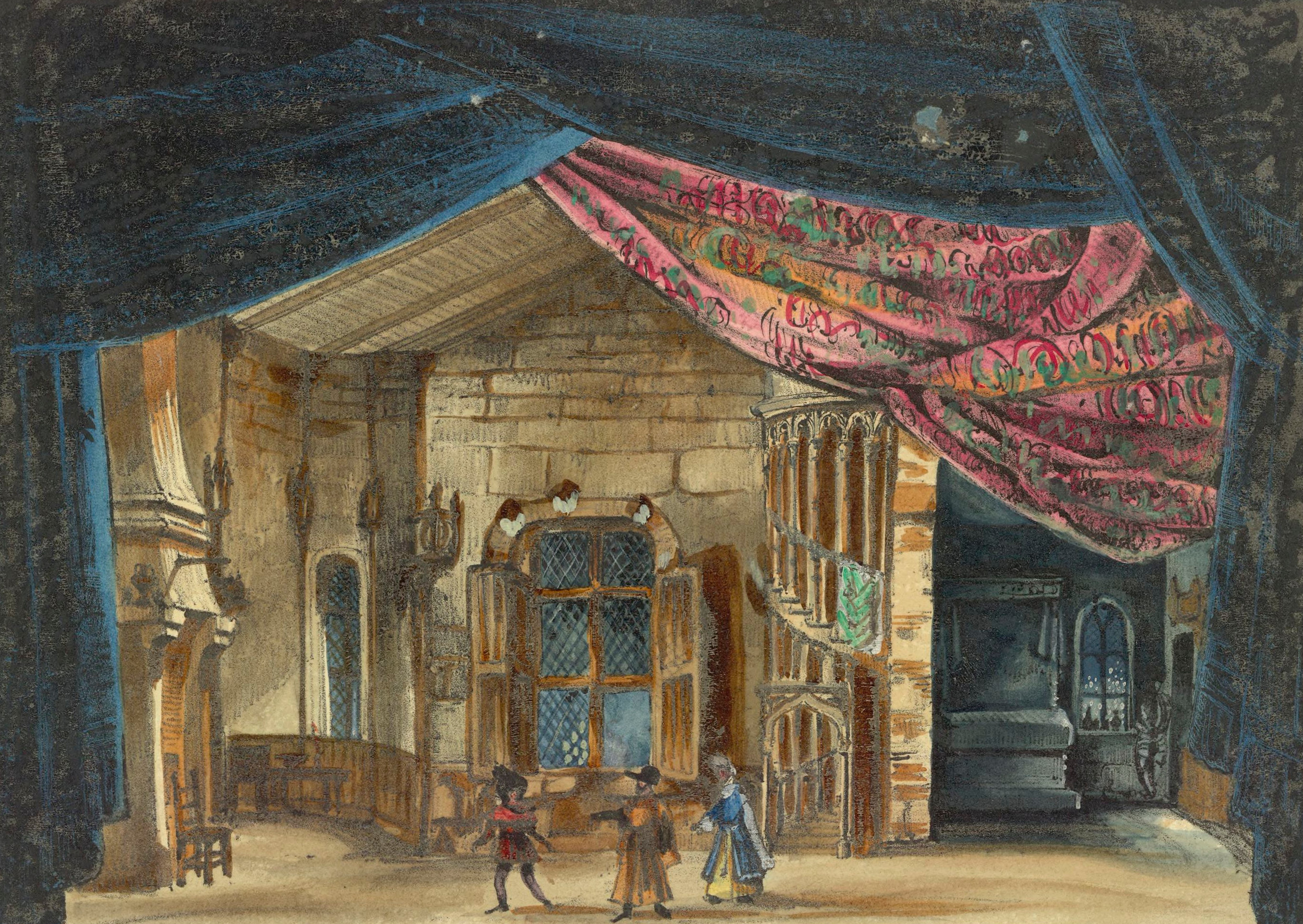 Halévy - La Juive - Act 2 set - Paris 1835